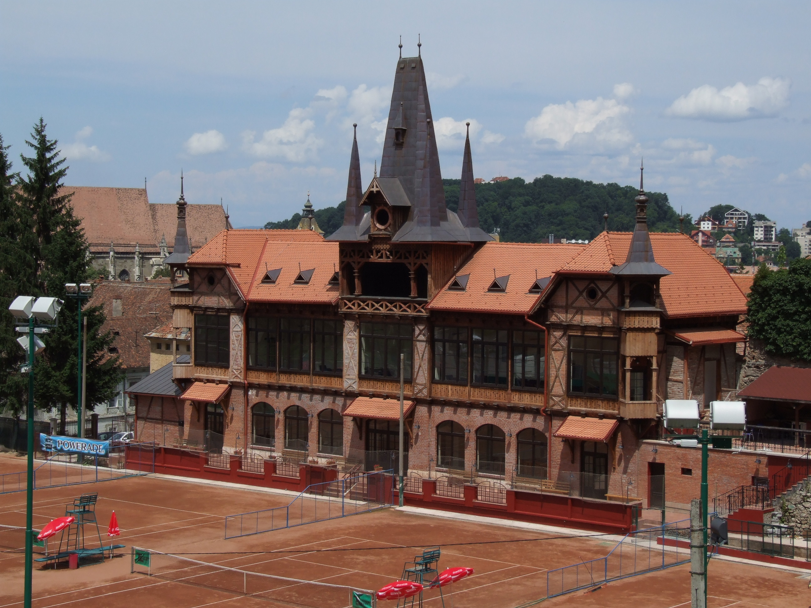 Sport complex „Olimpia“ in Kronstadt (Braşov, Brassó)